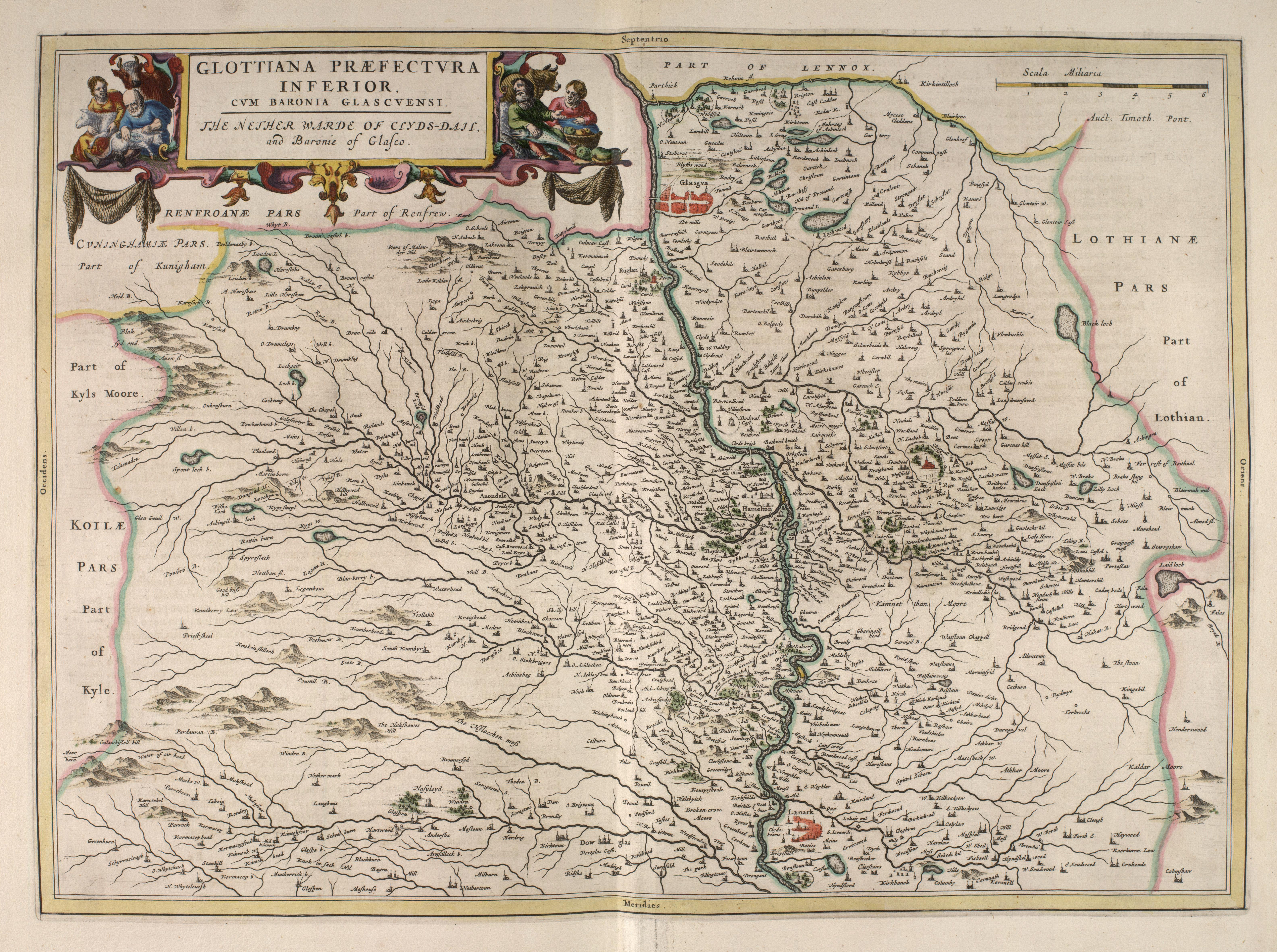 GLOTTIANA PRÆFECTVRA INFERIOR - Lower Clydesdale